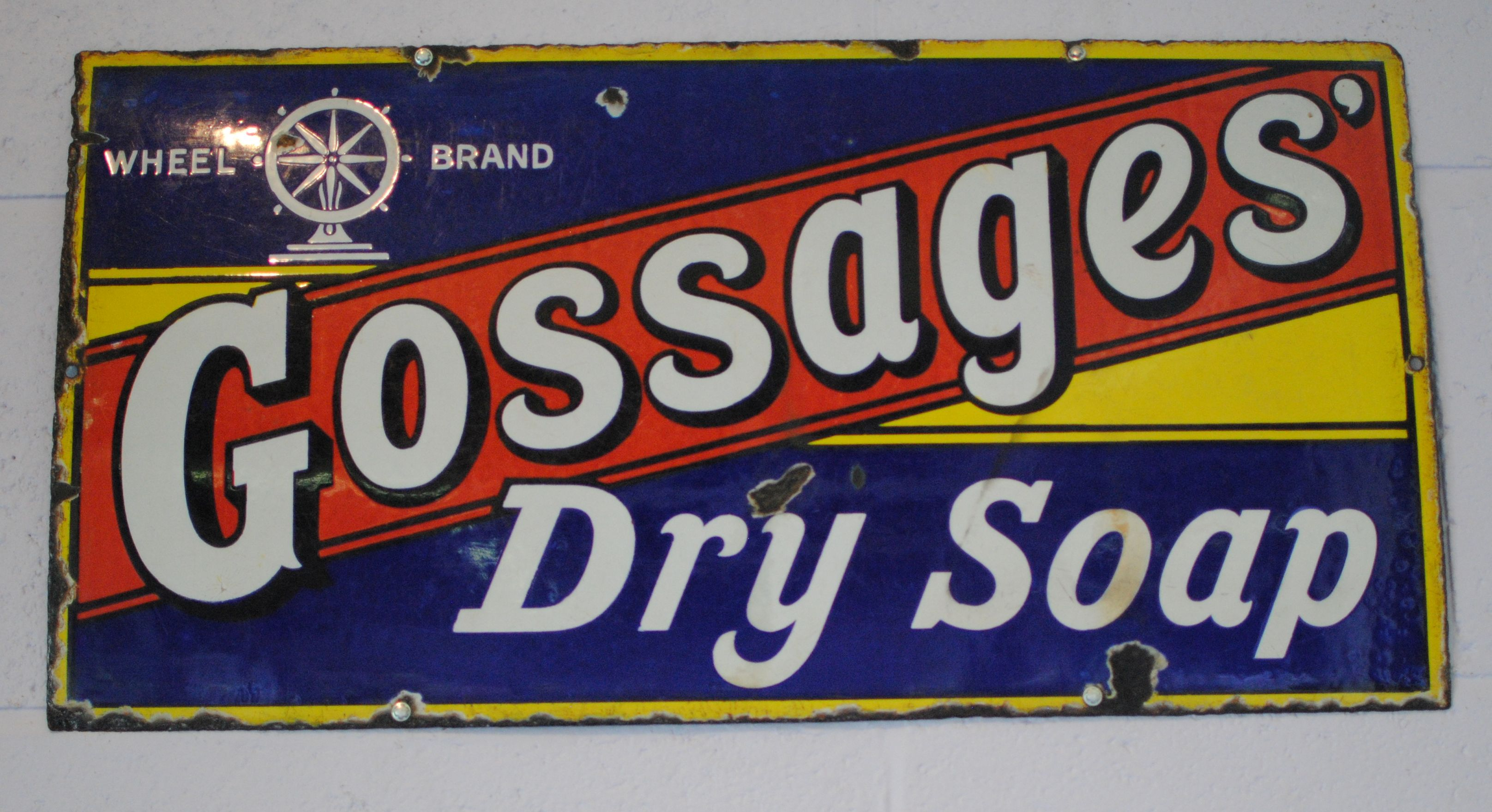 "Gossages Dry Soap - Wheel Brand" enamel sign, now in the cafe at Catalyst Science Discovery Centre, Widnes, England.